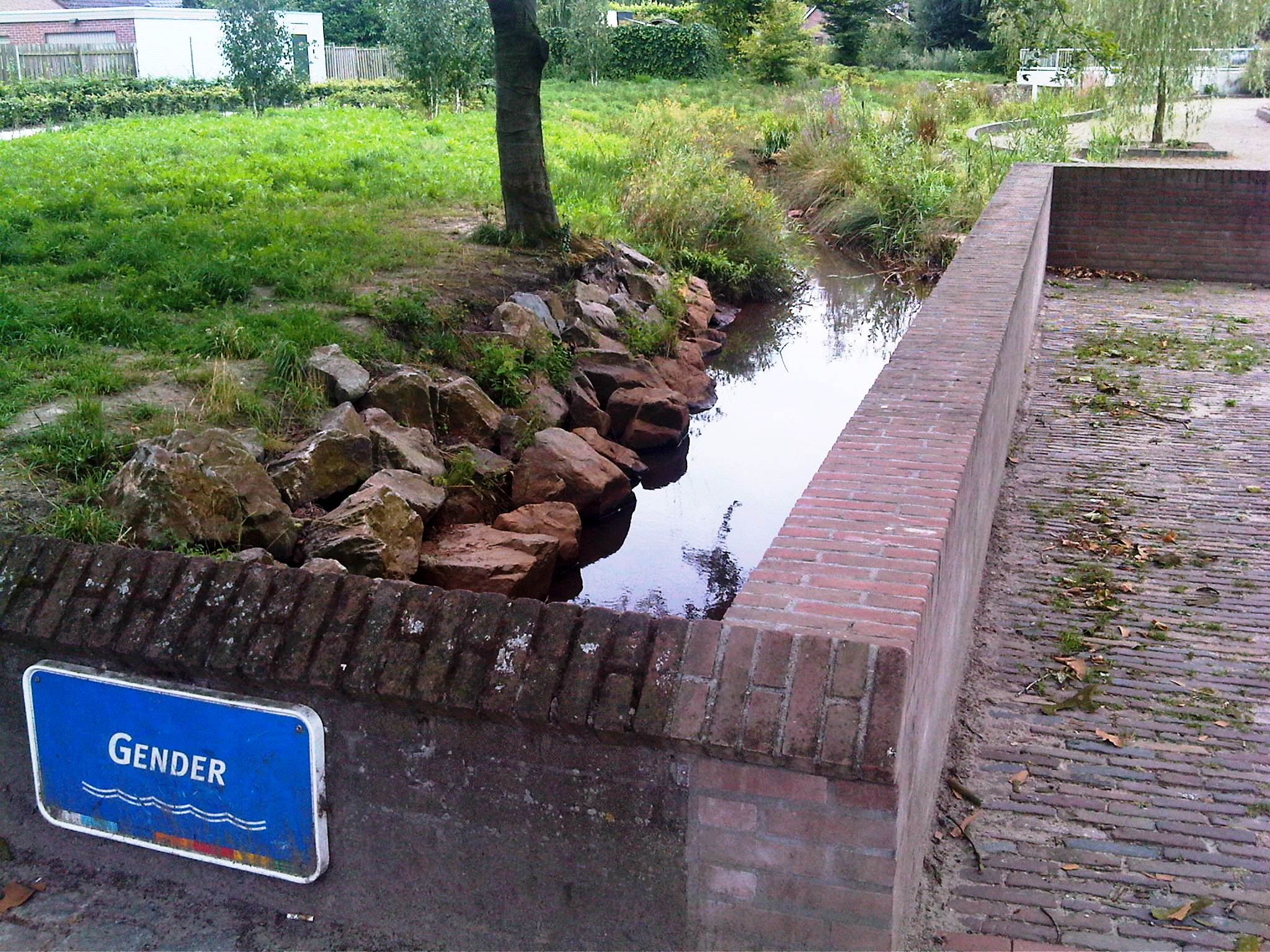 Picture of the Gender stream as it enters the old village centre of Veldhoven proper. View is to the east (upstream).